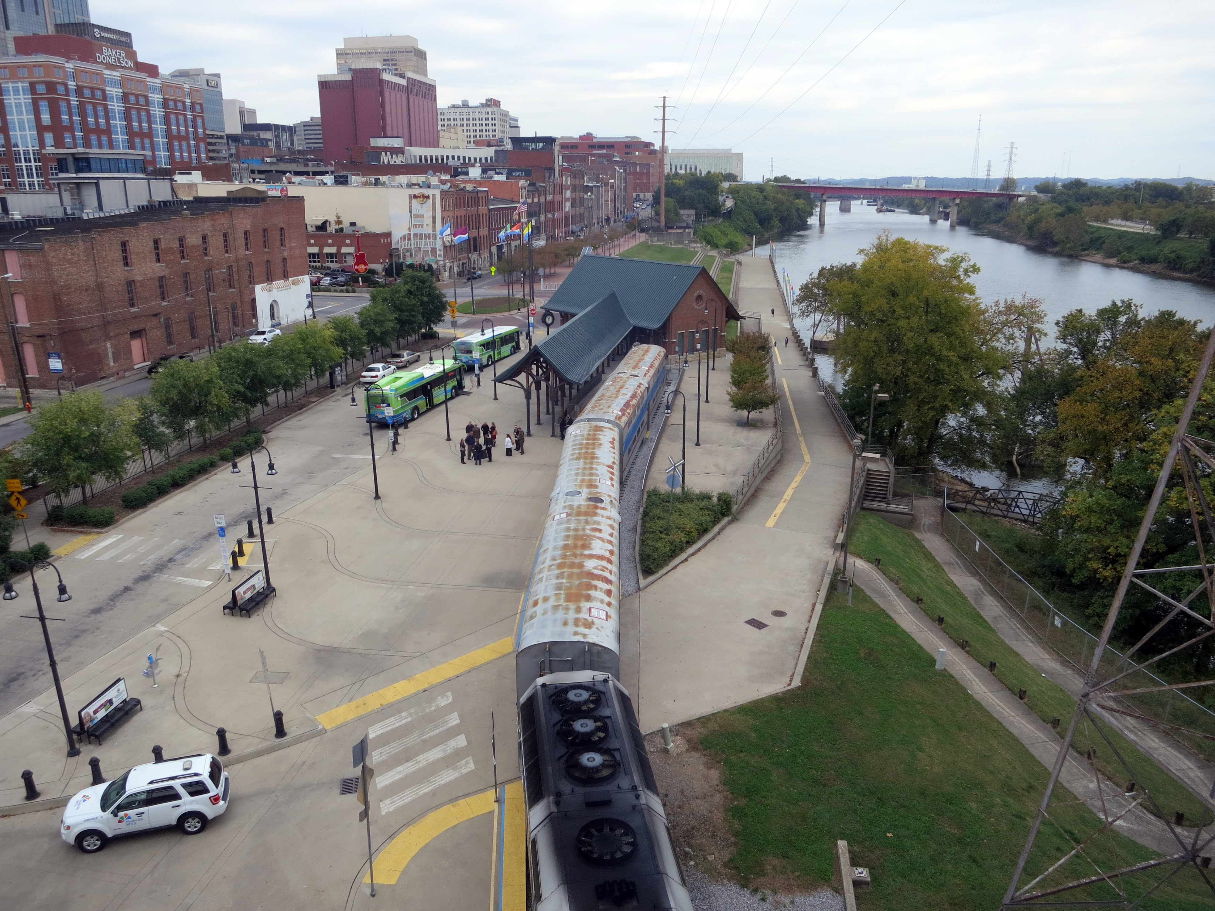 A Music City Star commuter train at the Nashville Riverfront station on October 24, 2013. An EMD F40PH is leading two ex-Metra gallery cars.